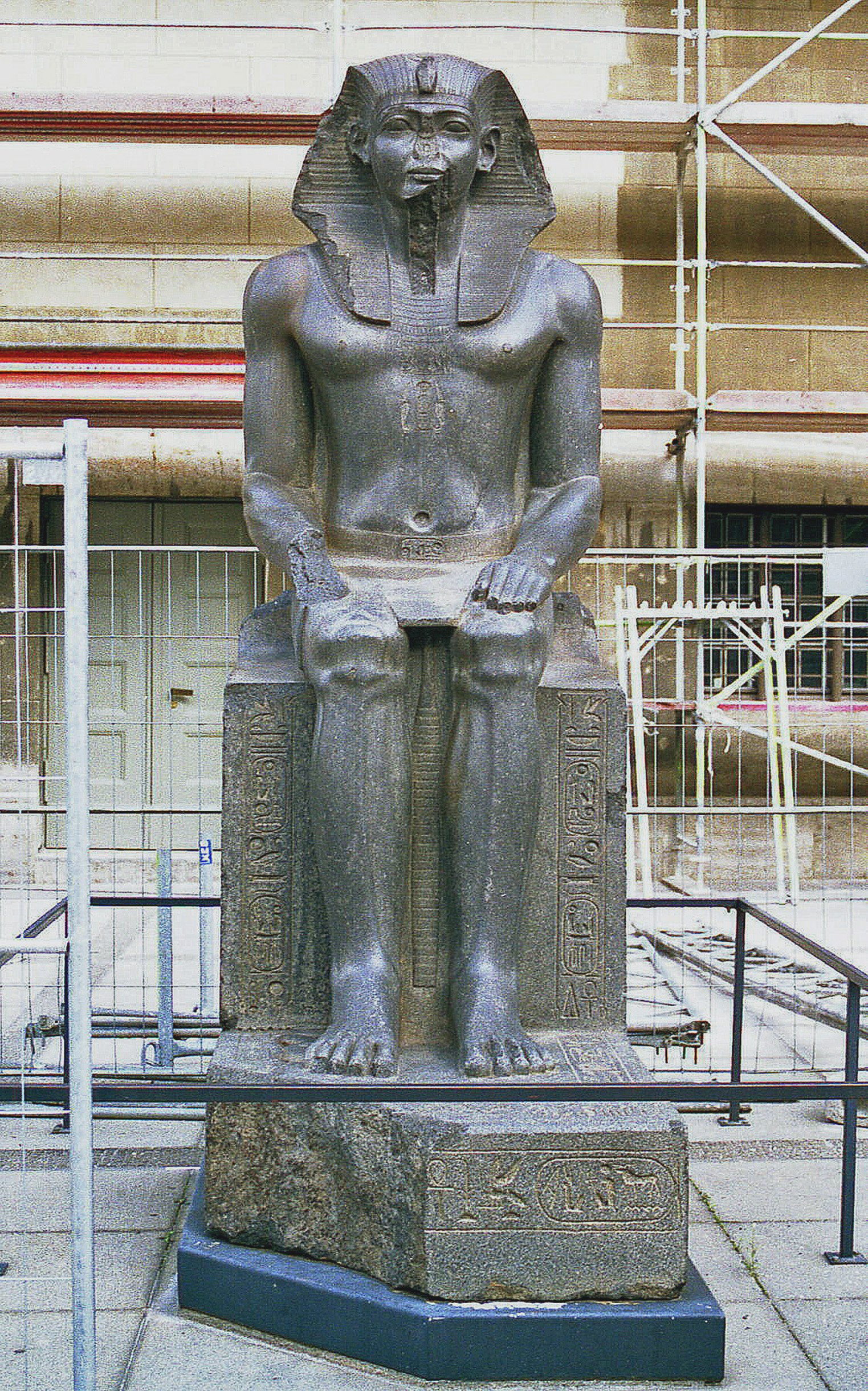 Colossal statue of Amenemhat II, later usurped by Ramesses II who transported it to Pi-Rames, and finally by Merenptah. Berlin, Pergammon Museum.